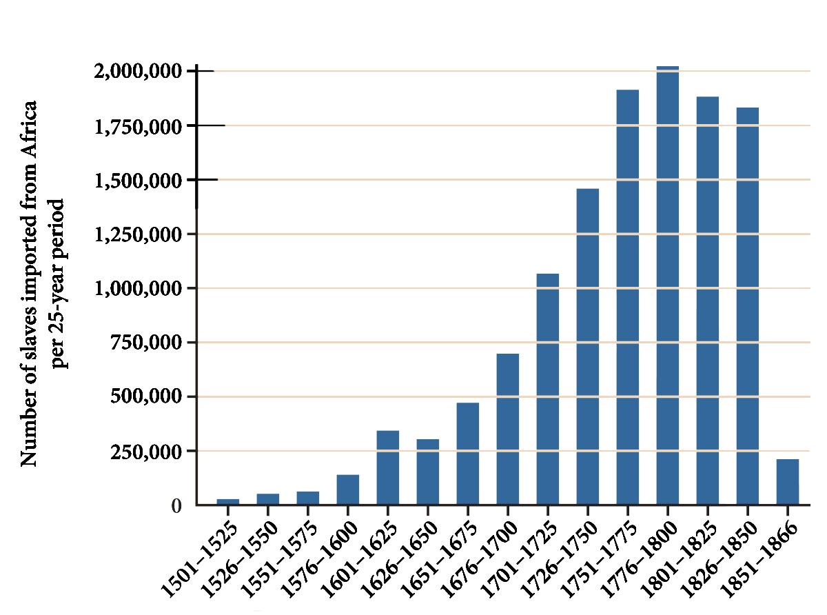 A graph depicting the number of slaves imported from Africa